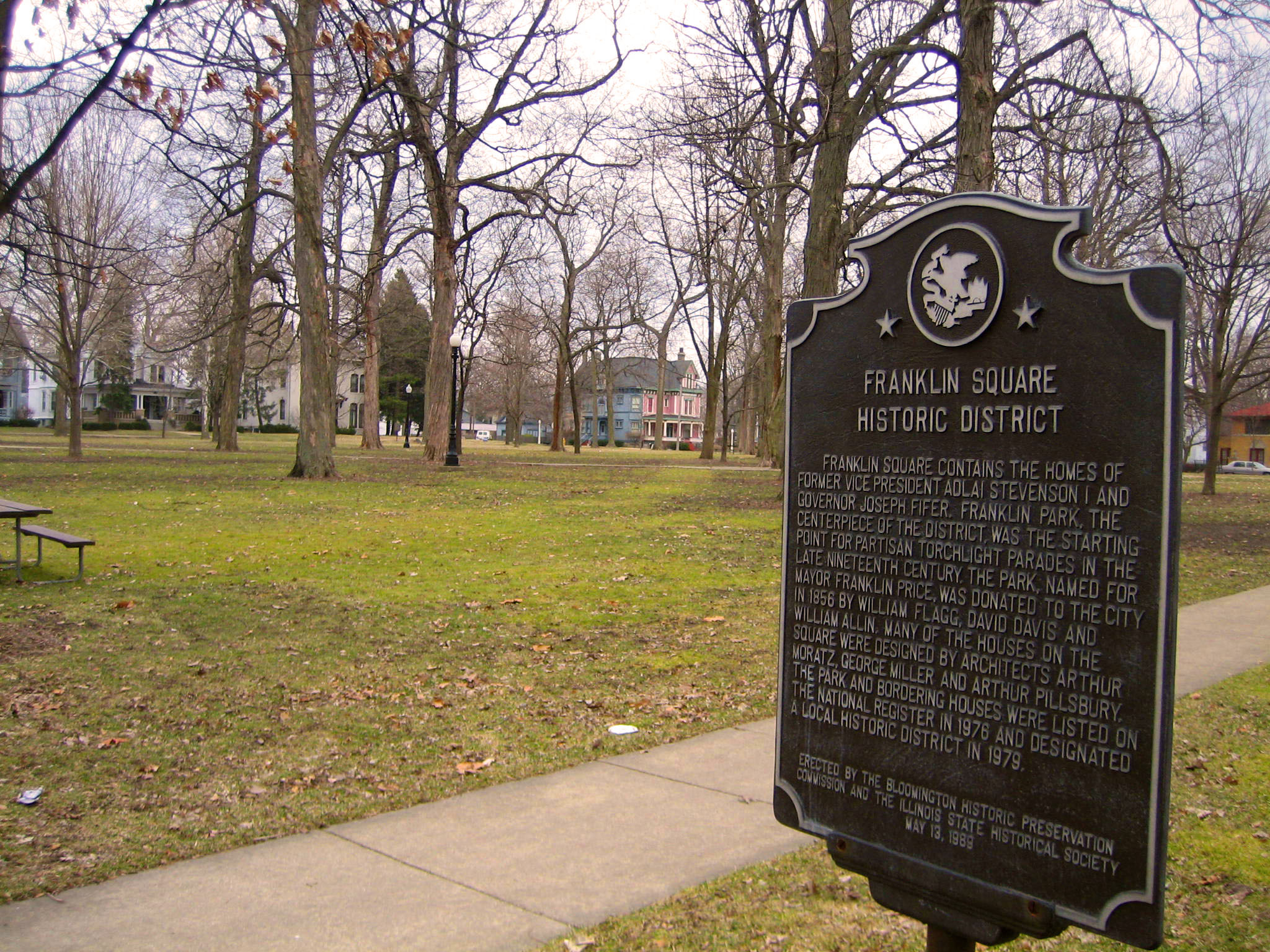 A view of Franklin Park